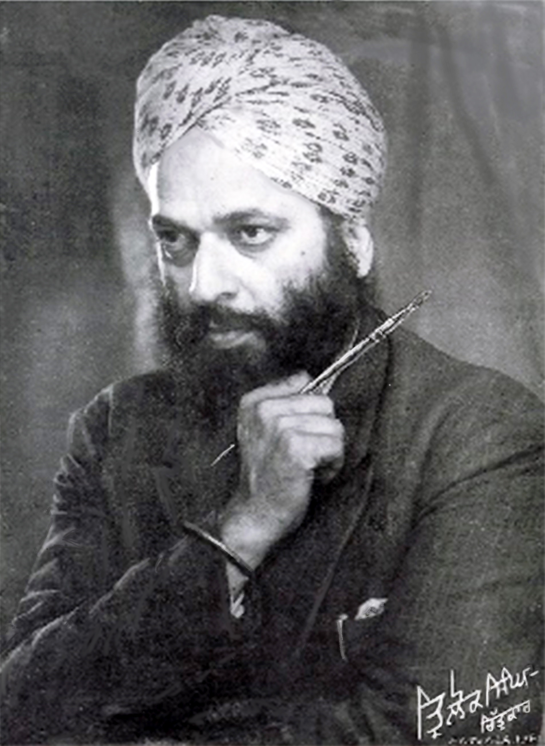 it is portrait of iindian painter Trilok Singh Artist of 20th. century. His date of birth 10-12-1914 and date of death 11-12-1990. He has contribution to the field of art. He lived at his residence at CHITRALOK, Chitra Lok Marg, near Modi college Patiala Punjab Pin 147001 India. Now his works are available there.